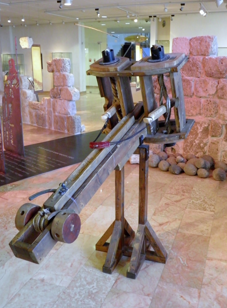 Replica of Roman Ballista in the Hecht Museum, Haifa